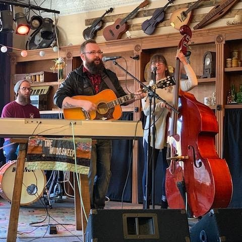 Woodsheep performing live at The Purple Fiddle in 2019